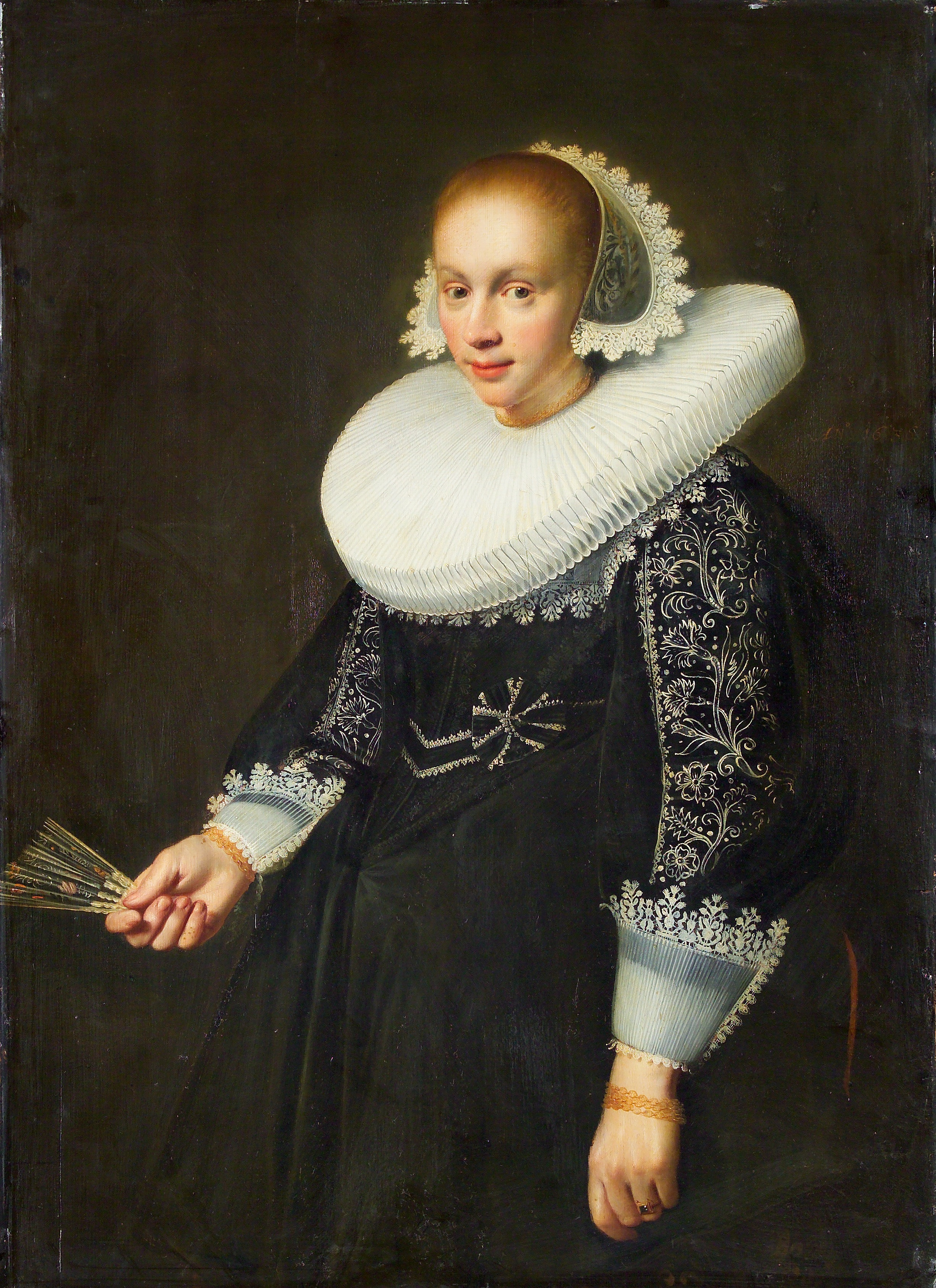 Portrait of a young woman with a fan